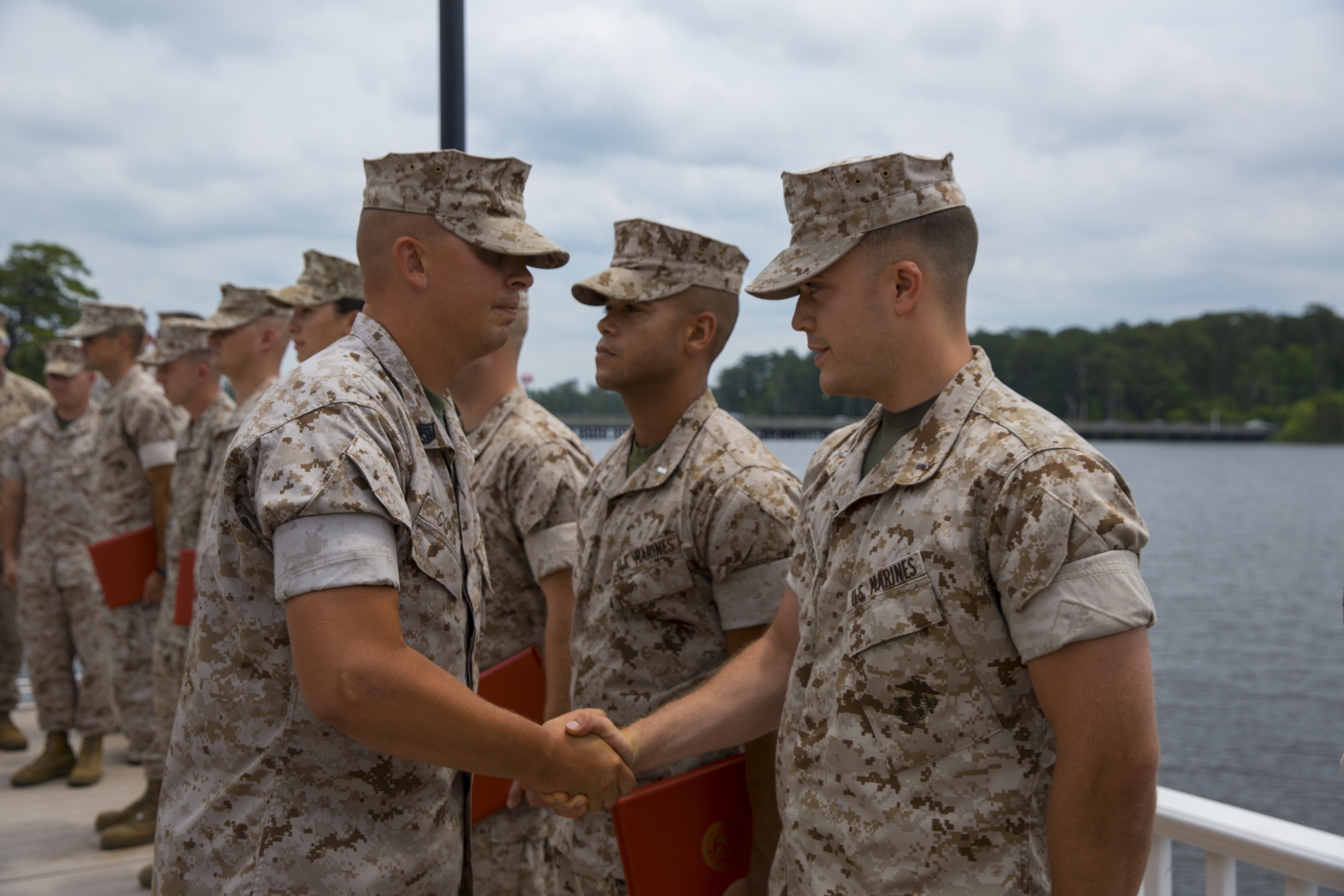 On a dock outside Marston Pavilion, a Bentonville, Ark., native reaffirmed his oath of office during a promotion ceremony here, May 27. “I … do solemnly swear that I will support and defend the constitution of the United States against all enemies, foreign and domestic; that I will bear true faith and allegiance to the same; that I take this obligation freely, without any mental reservation or purpose of evasion, and that I will well and faithfully discharge the duties of the office on which I am about to enter,” said 1st Lt. Benjamin Steiger, a logistics officer with Transportation Support Company, Combat Logistics Battalion 2, 2nd Marine Logistics Group. Steiger, a 2012 graduate of Oral Roberts University, pinned on the rank of first lieutenant during his promotion ceremony here.